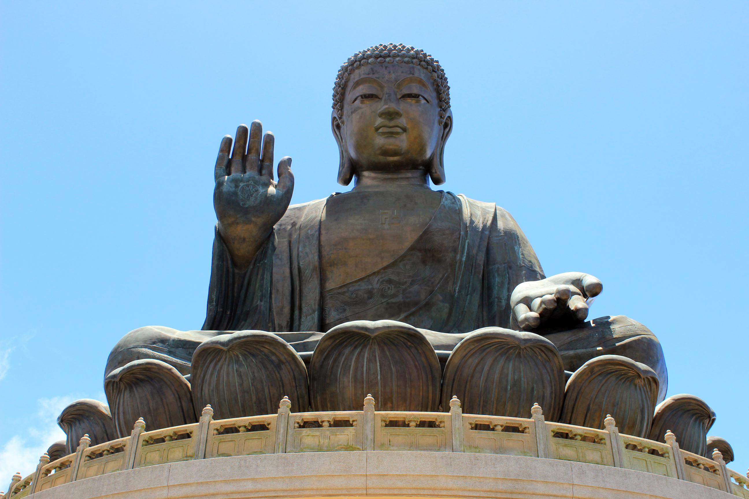 Tian Tan Buddha